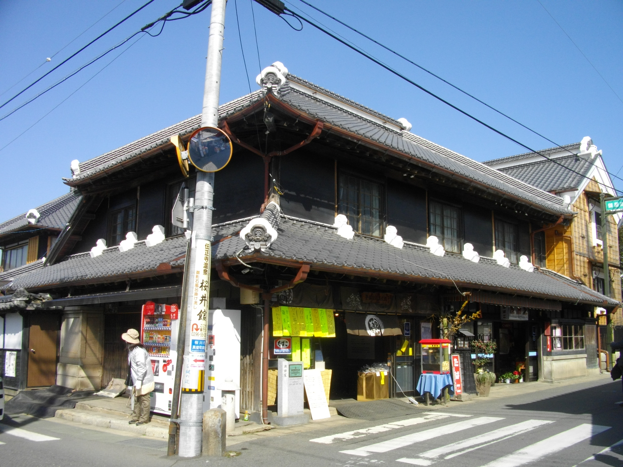 Ushioda-ke House